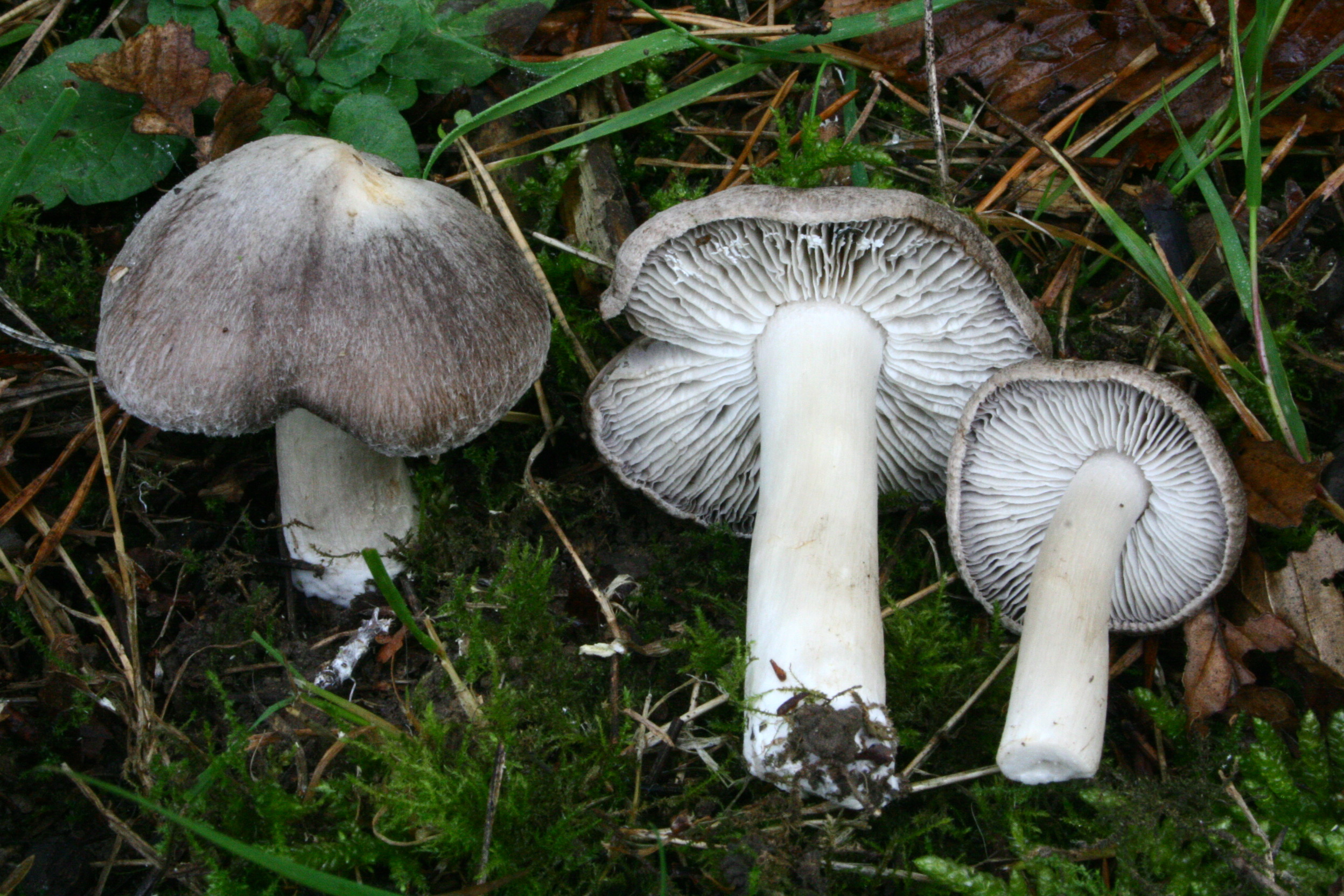 Tricholoma terreum in a park near Paris, France.